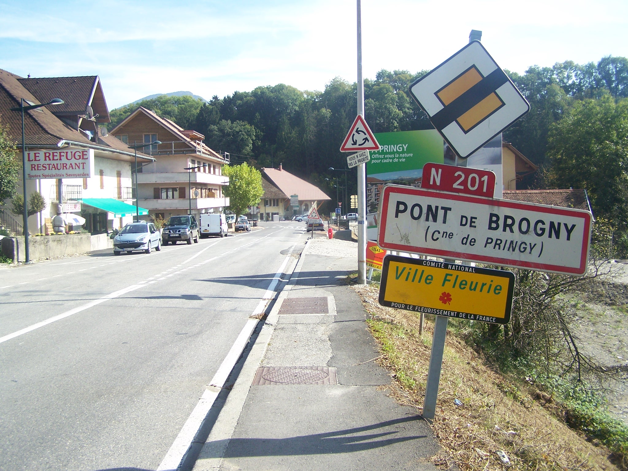 Entering Pont de Brogny, part of the commune of Pringy in Haute-Savoie, France.